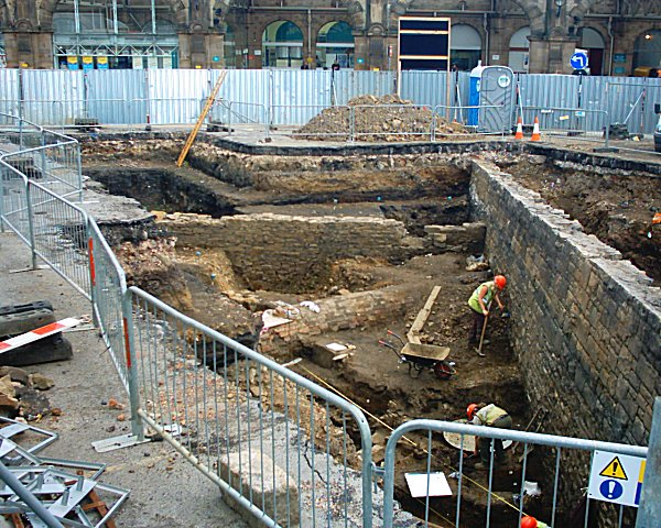 Archeological site of Bamford Dam outside Sheffield Midland Station before building of the gateway to the city.